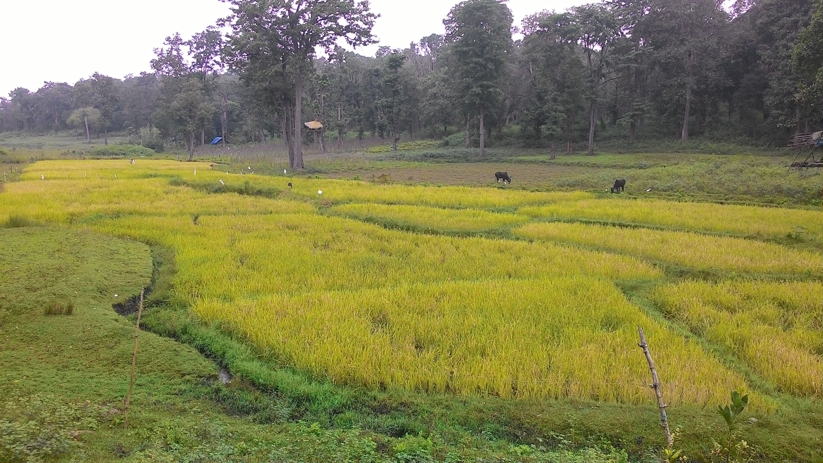 Paddy Fields on the sides of kattikulam road